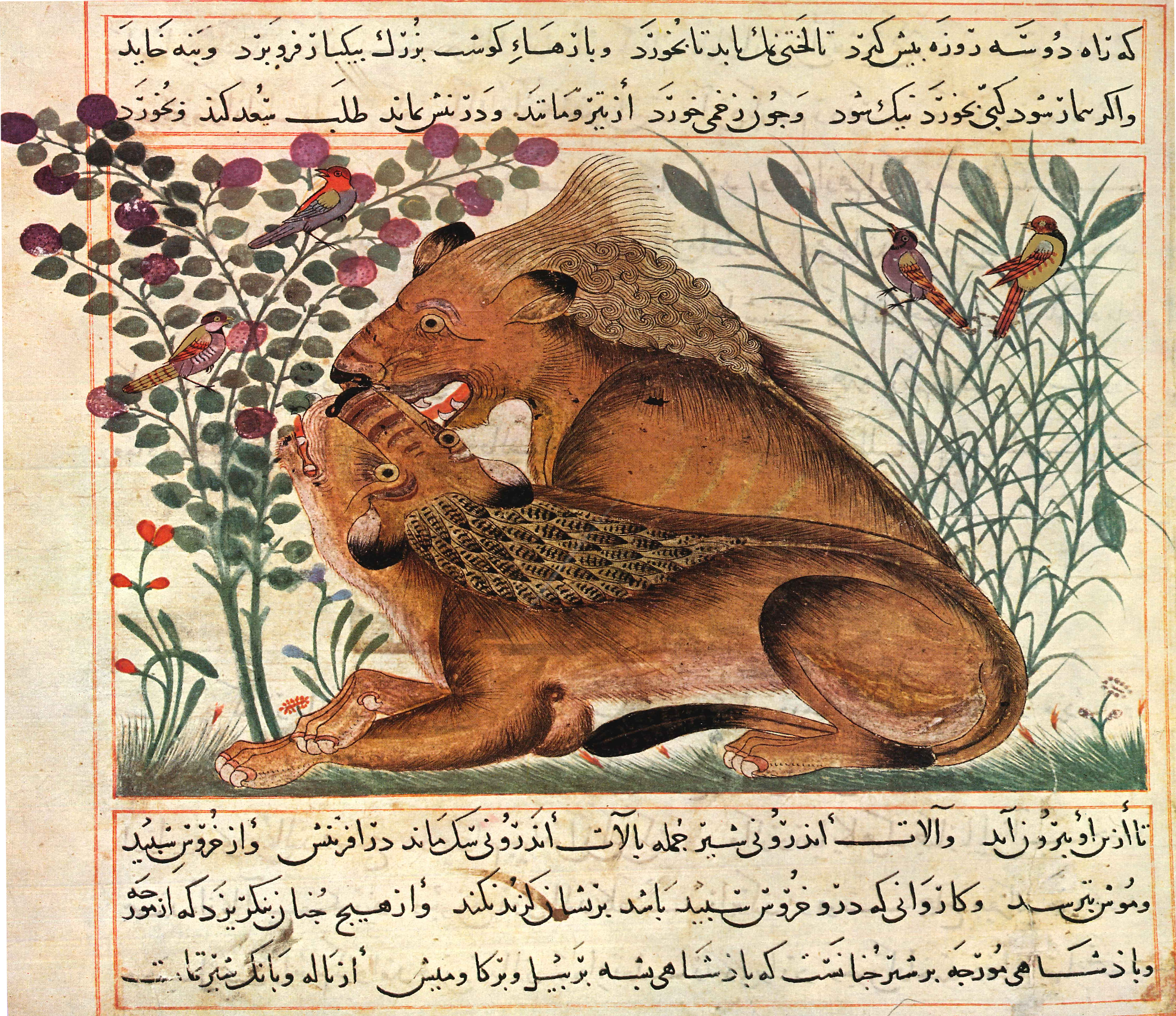 A page from the Manafi' al-Hayawan, a book by Ibn Bakhtiku, in which there is a lion and a lioness.